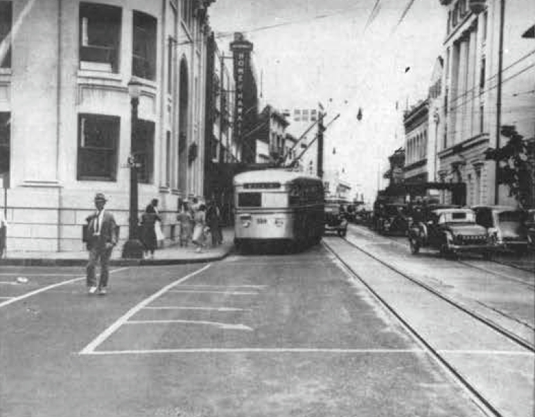 A Honolulu Rapid Transit (HRT) trolley bus stops at the corner of King and Bishop Streets, Honolulu, Territory of Hawaii, on 24 October 1944.